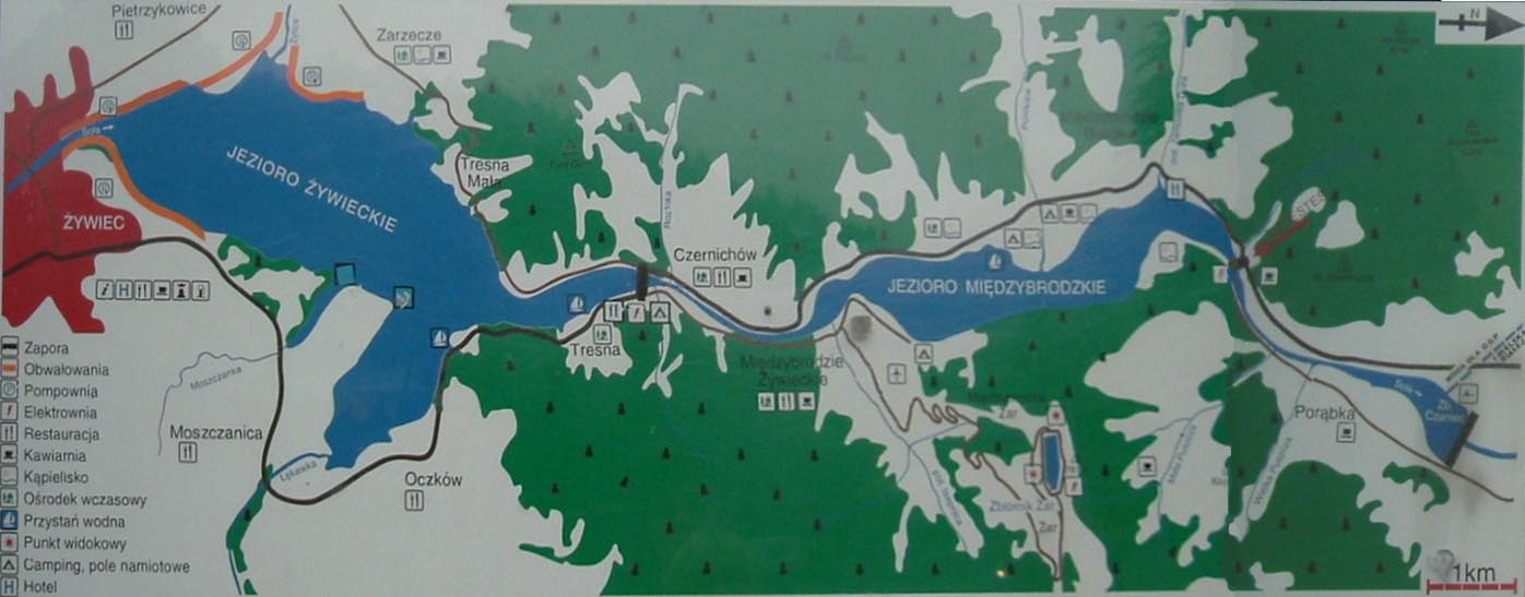 Map of the four water reservoirs on the Soła river, Poland. From a tourist information table.